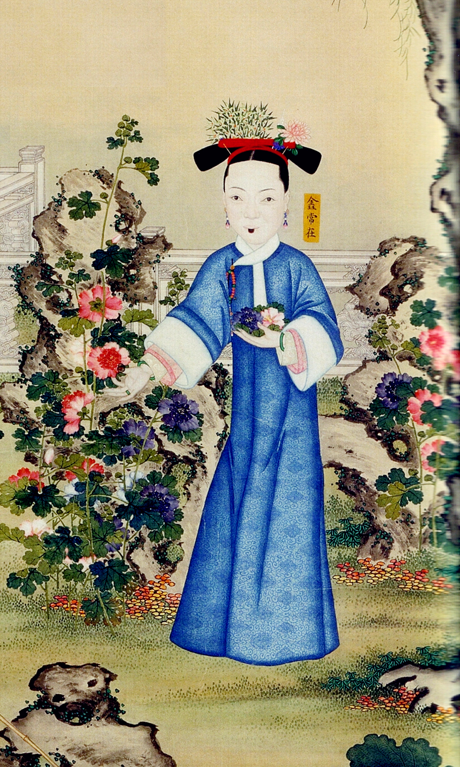 Imperial portrait of the Concubine Xin of Emperor Xianfeng